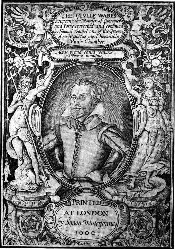 Frontispiece of The Civile Wares (1609) with portrait of Samuel Daniel